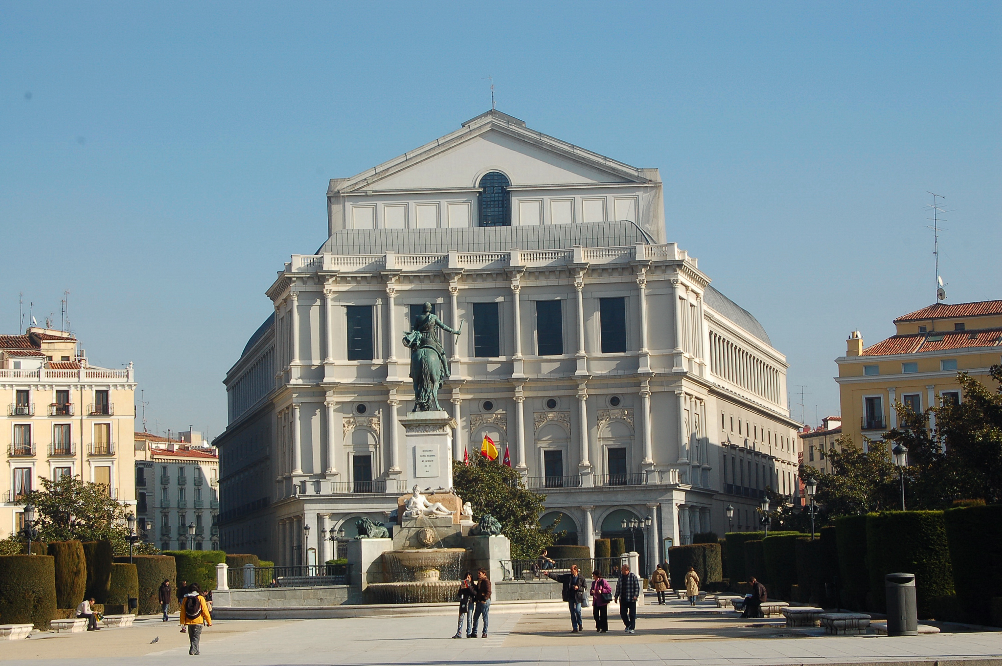 Teatro Real